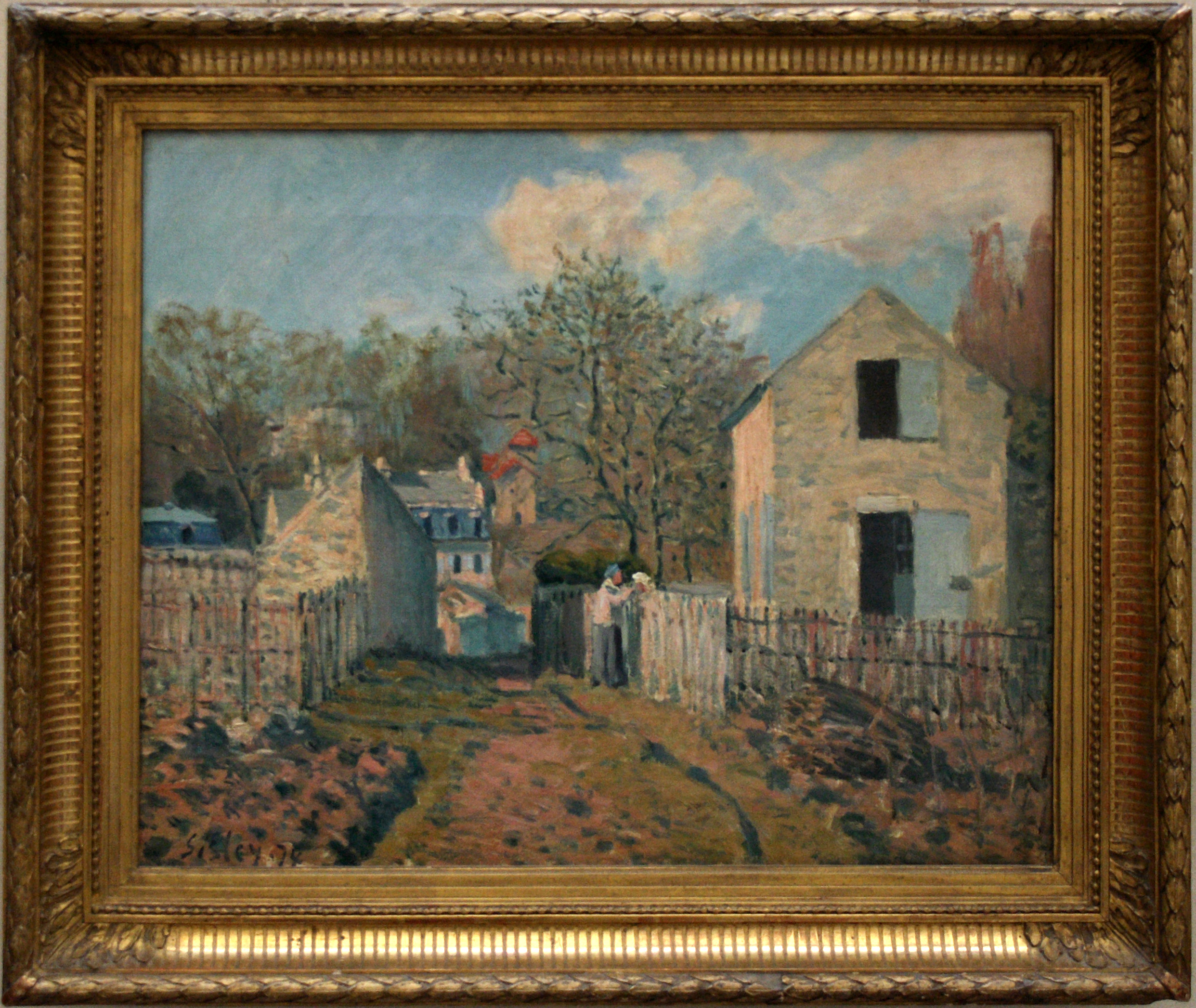 Painting of Sisley in the Orsay Museum, Paris